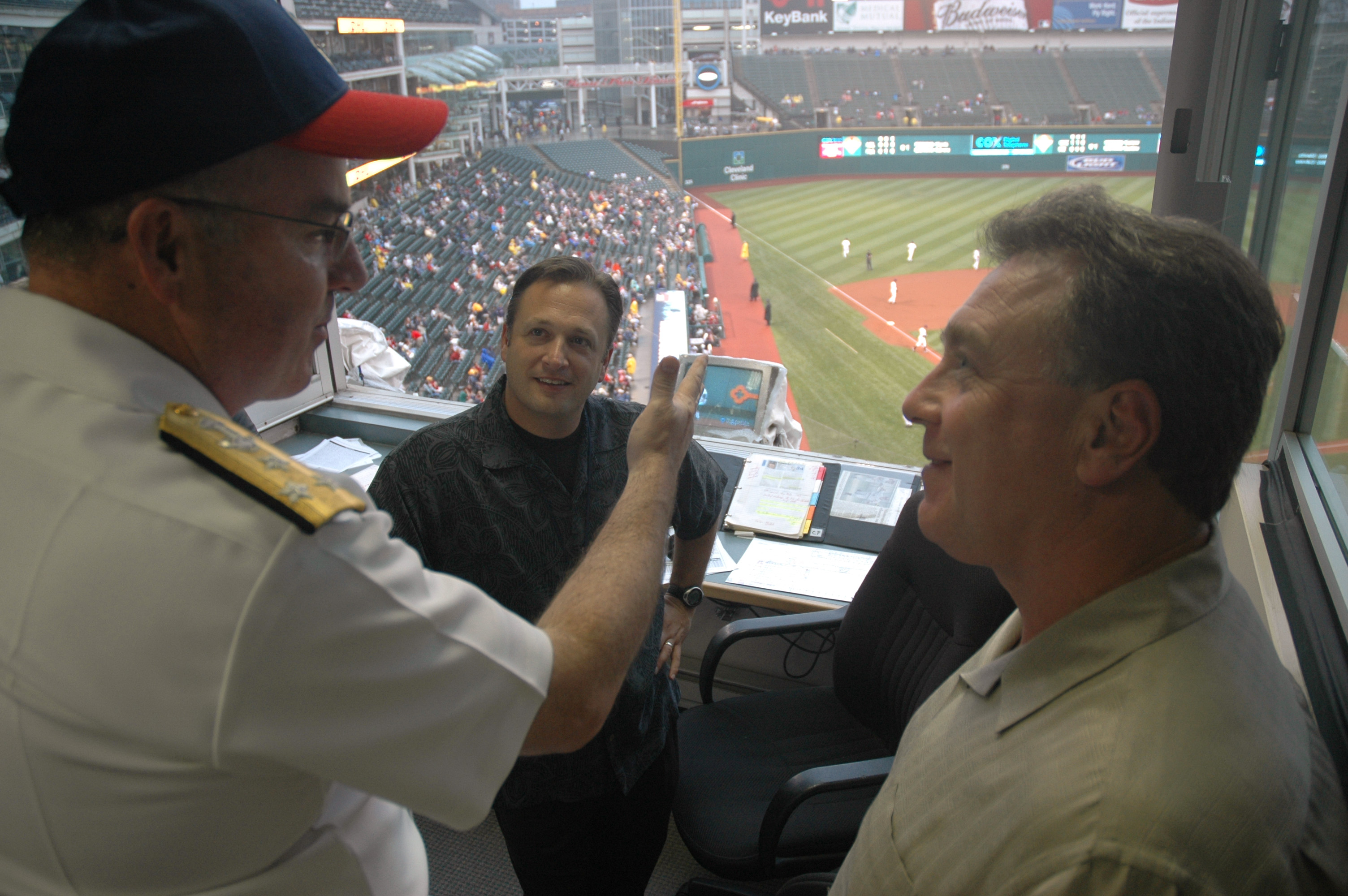 Cleveland, Ohio (Aug. 28, 2006) - Chief of Naval Personnel Vice Adm. John C. Harvey Jr. chats with broadcasters Tom Hamilton and Matt Underwood from the Cleveland Indians Radio Network during a Major League Baseball game at Jacobs Field between the Cleveland Indians and Toronto Blue Jays. Harvey administered the oath reenlisting to 15 Sailors assigned to Navy Operational Support Center Cleveland on the field before the game. He also threw out the ceremonial first pitch. Vice Adm. Harvey was participating in events kicking off Cleveland Navy Week 2006, which runs Aug. 28-Sep. 4. Twenty-six such weeks are planned this year in cities throughout the U.S., arranged by the Navy Office of Community Outreach (NAVCO). The mission of NAVCO is to enhance the Navy's brand image in areas with limited exposure to the Navy. U.S. Navy photo by Mass Communication Specialist 1st Class Jason J. Perry (RELEASED)